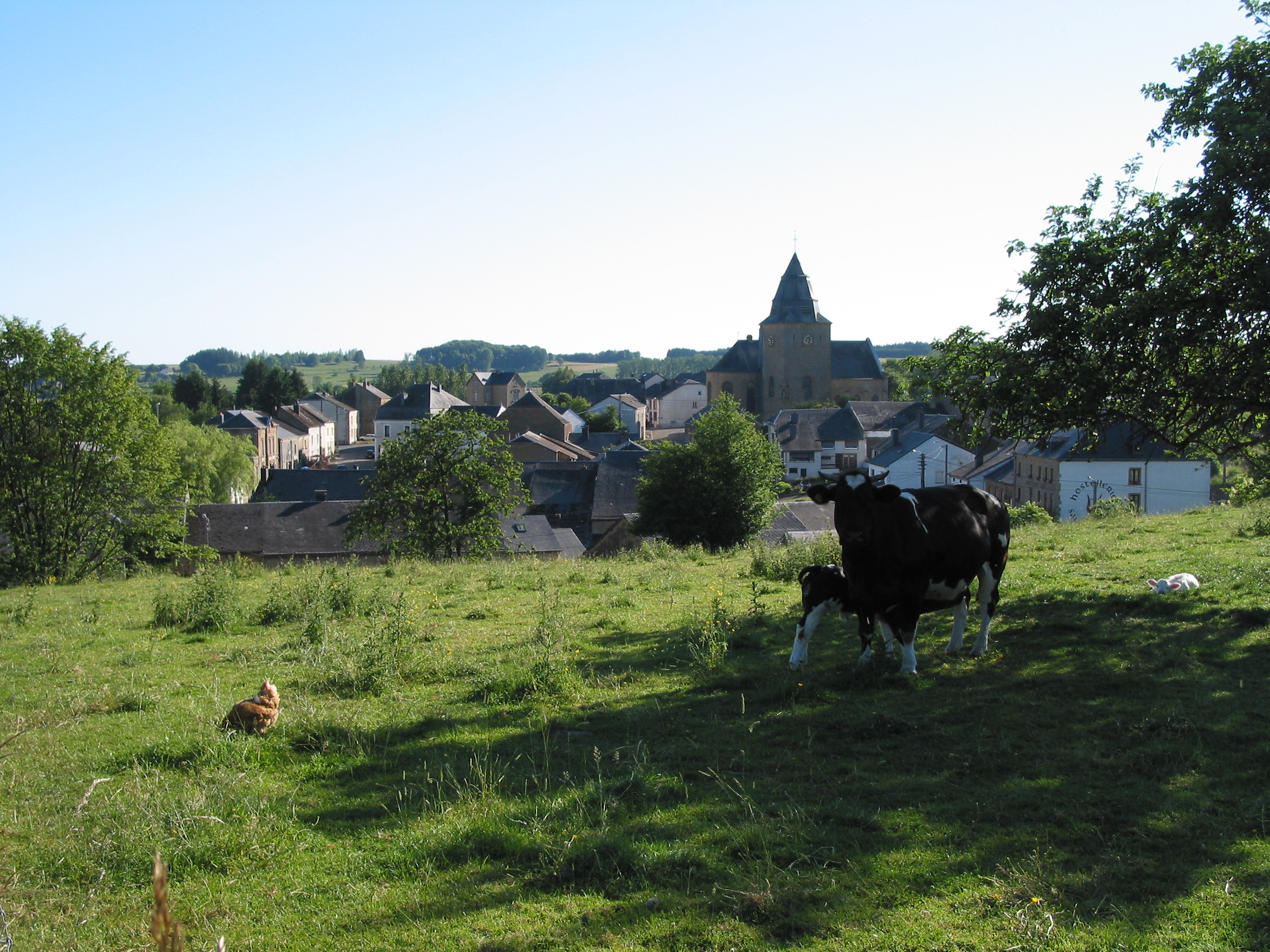 Sainte-Cécile (Belgium) the village seen from the rue du Terme.